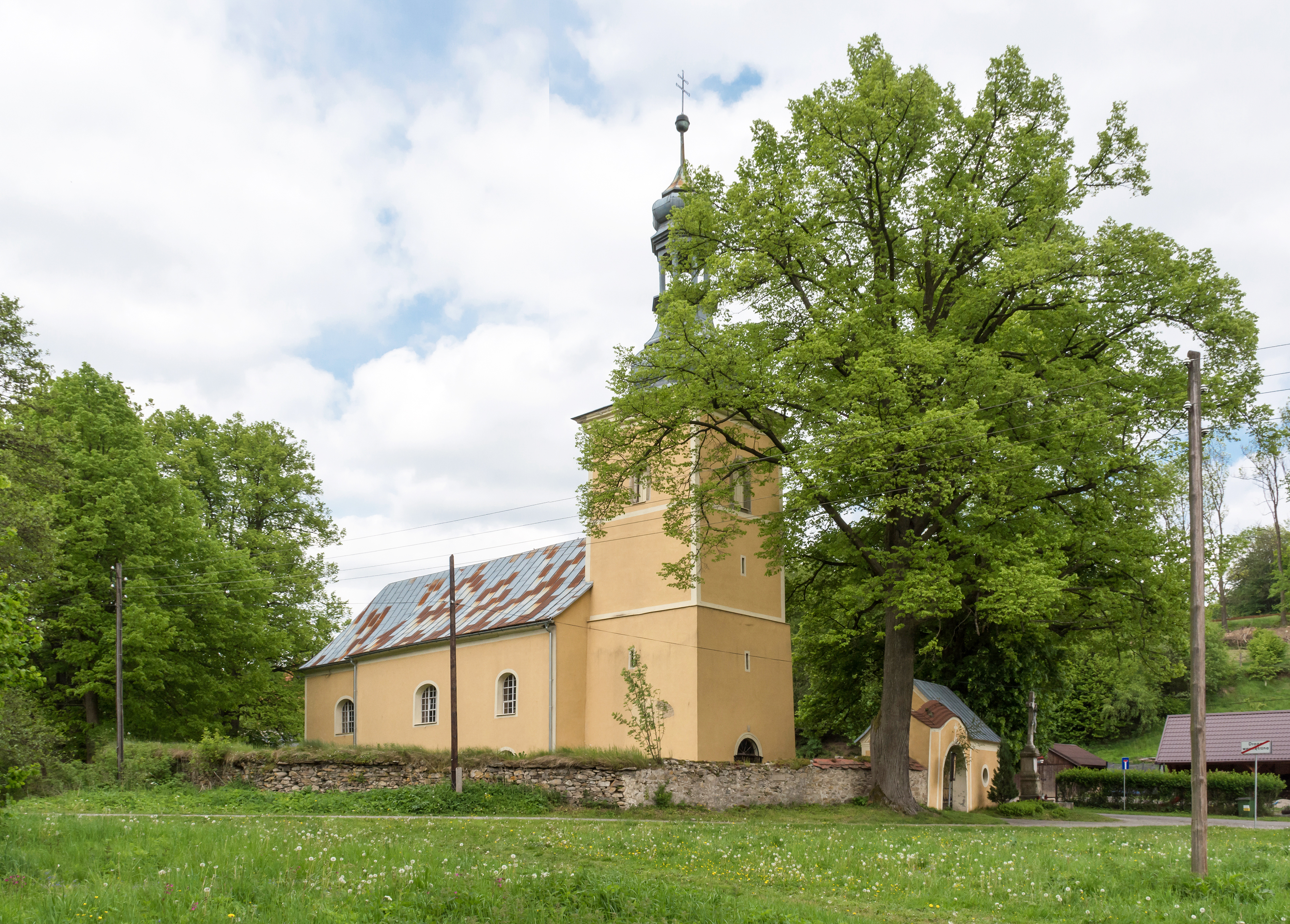 Saint Sebastian church in Orłowiec